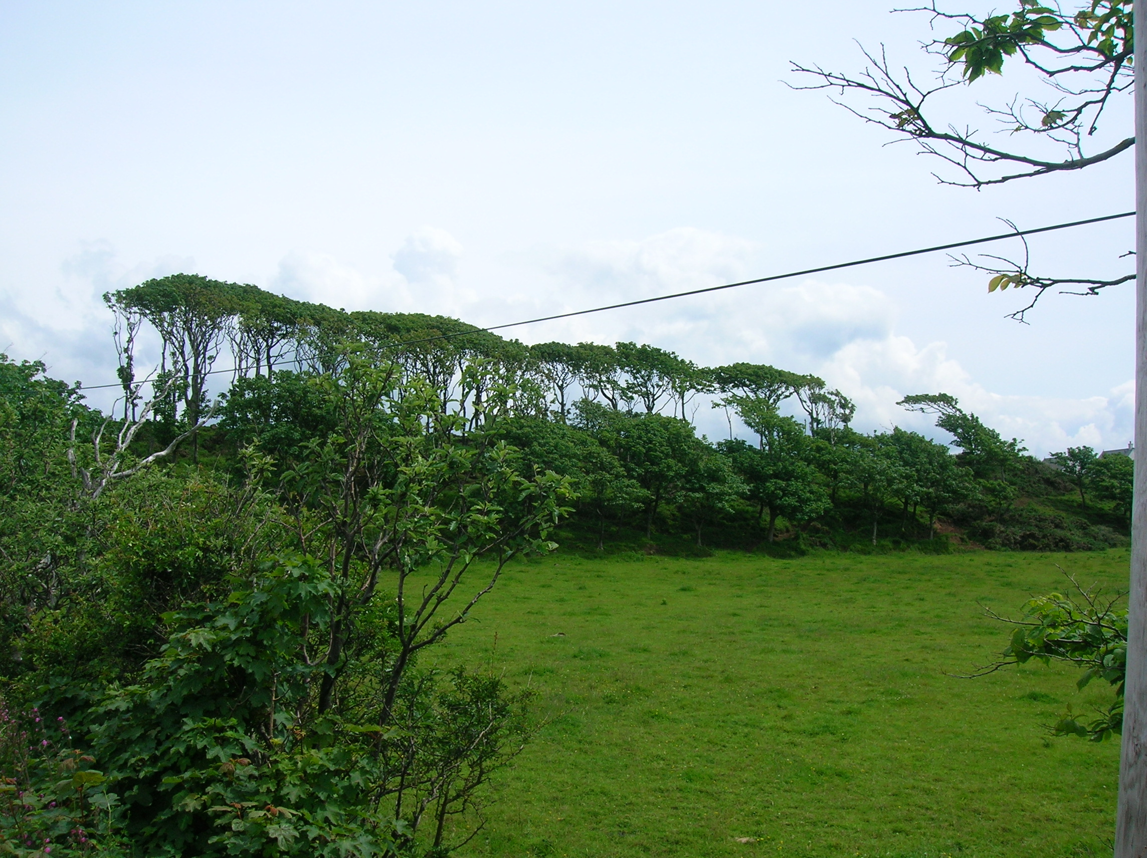 Montfode Braes - East, Ardrossan, North Ayrshire, Scotland.